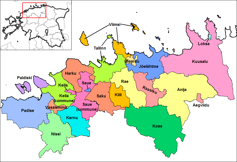 Map of the municipalities of Harju county in Estonia. Created by Rarelibra 16:37, 22 December 2006 (UTC) for public domain use, using MapInfo Professional v8.5 and various mapping resources.